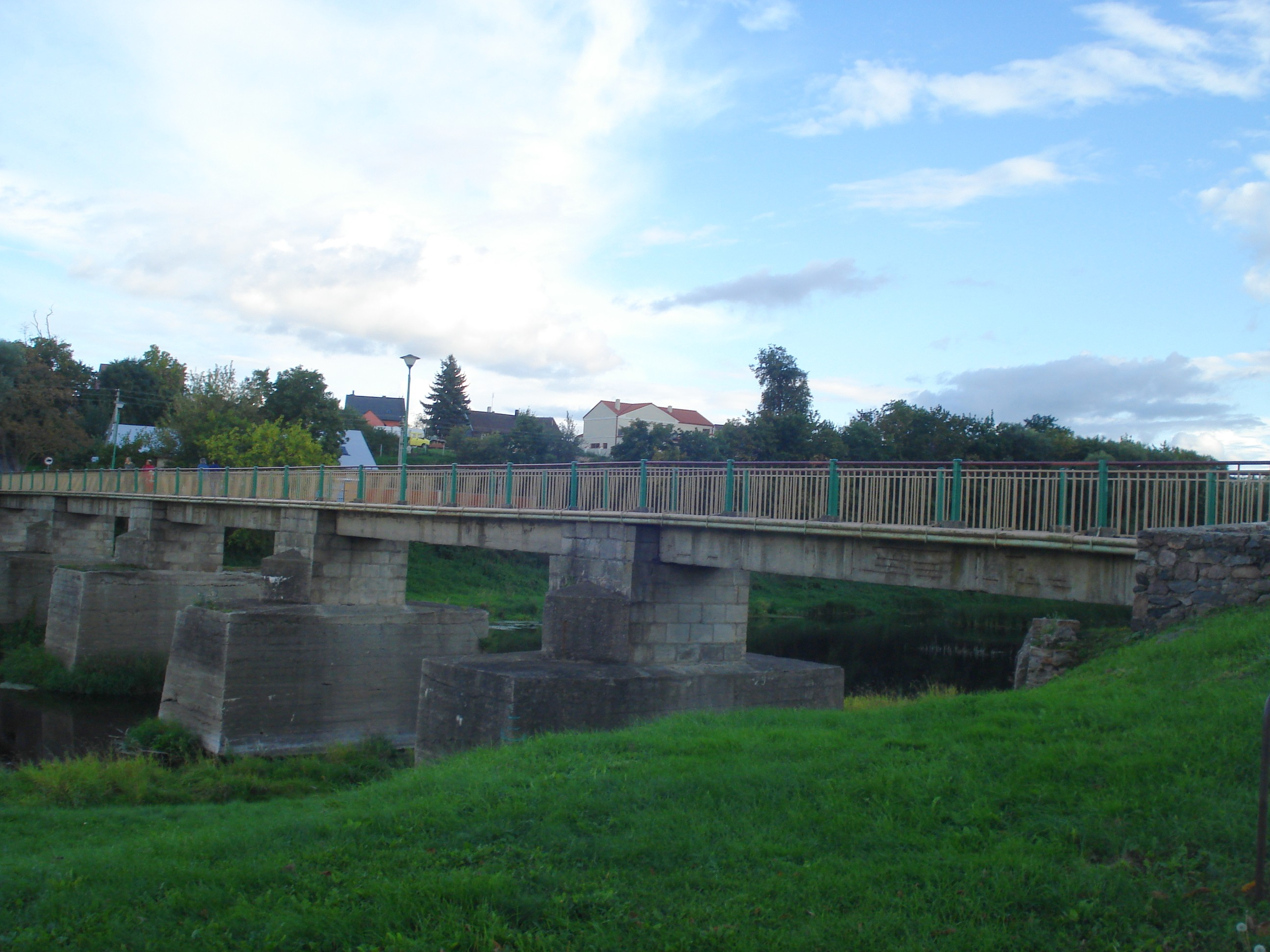 The bridge in Kėdainiai (Lithuania)